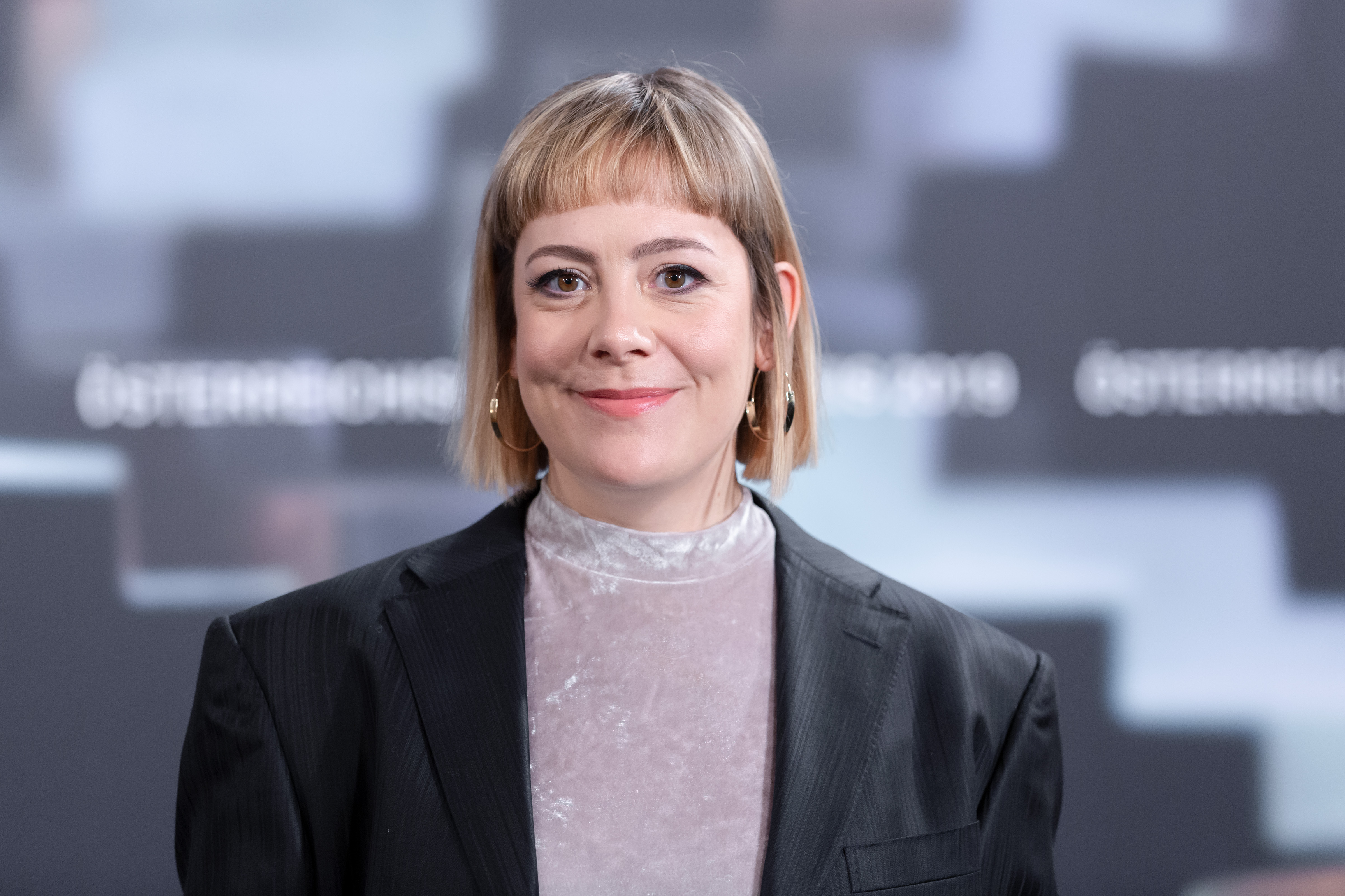 Katharina Mückstein (director and writer "L’Animale"), photo call at the Austrian Film Awards 2019 (Rathaus, Vienna,Austria).